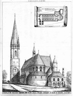 Original plan and elevation drawing of the Church of The Ascension, Lavender Hill, Battersea, London